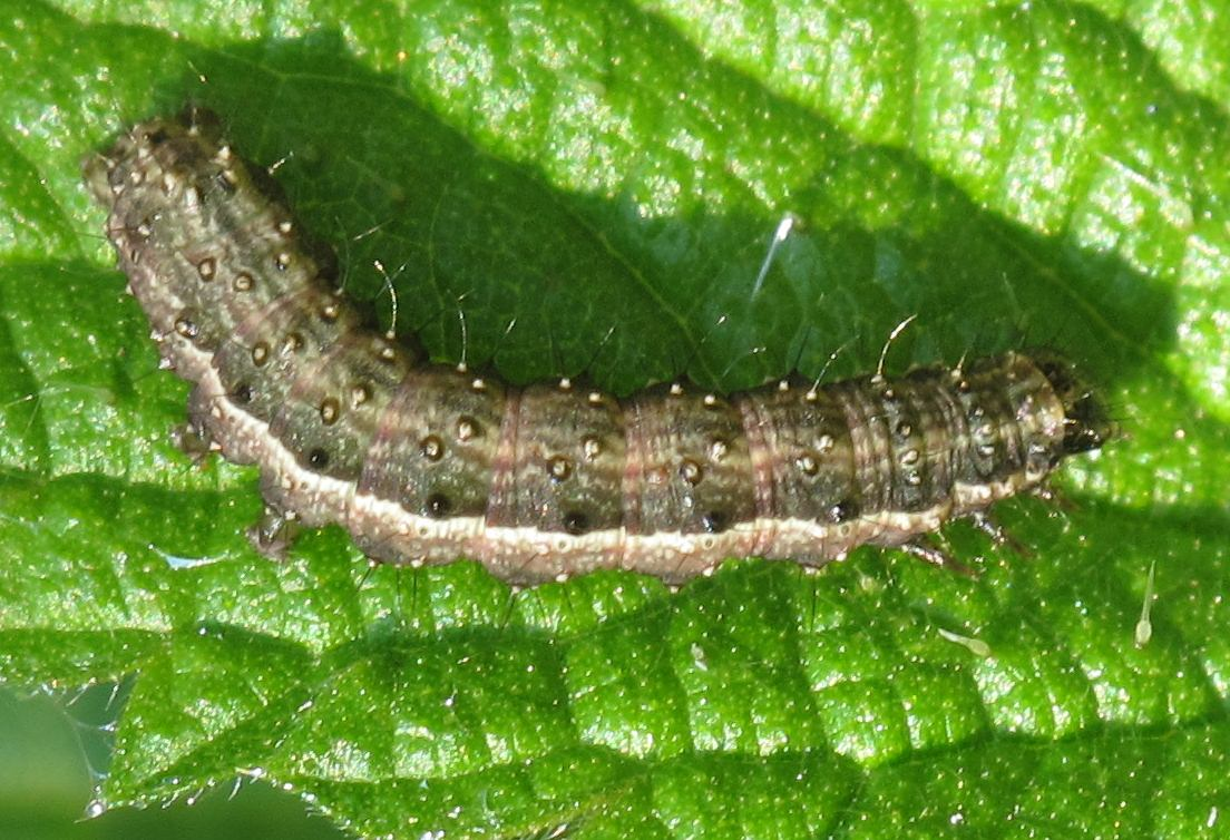 catterpillar of Dewick’s plusia (Macdunnoughia confusa), found in Germany between Dreieich-Götzenhain und Langen on Urtica dioica